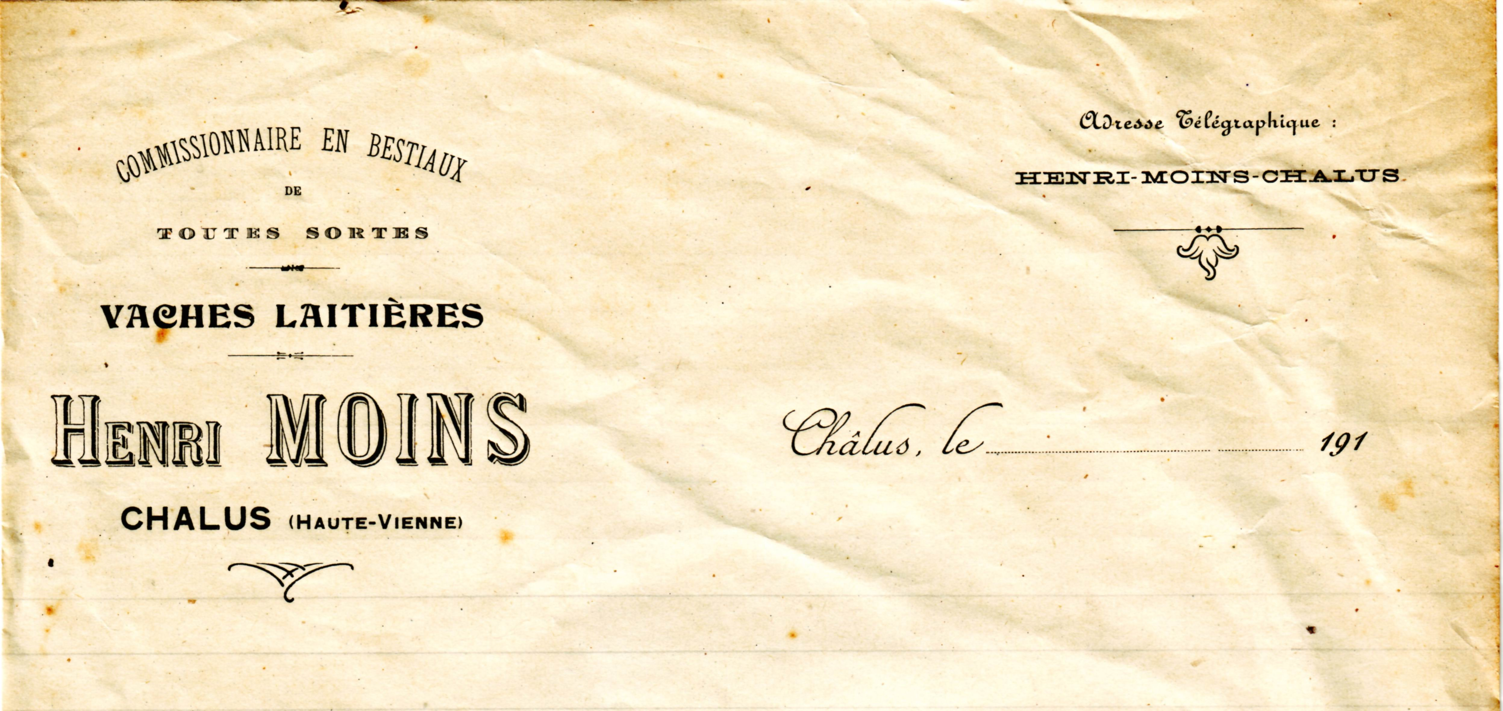 A Livestock business's letterhead for a Telegraph, around 1910